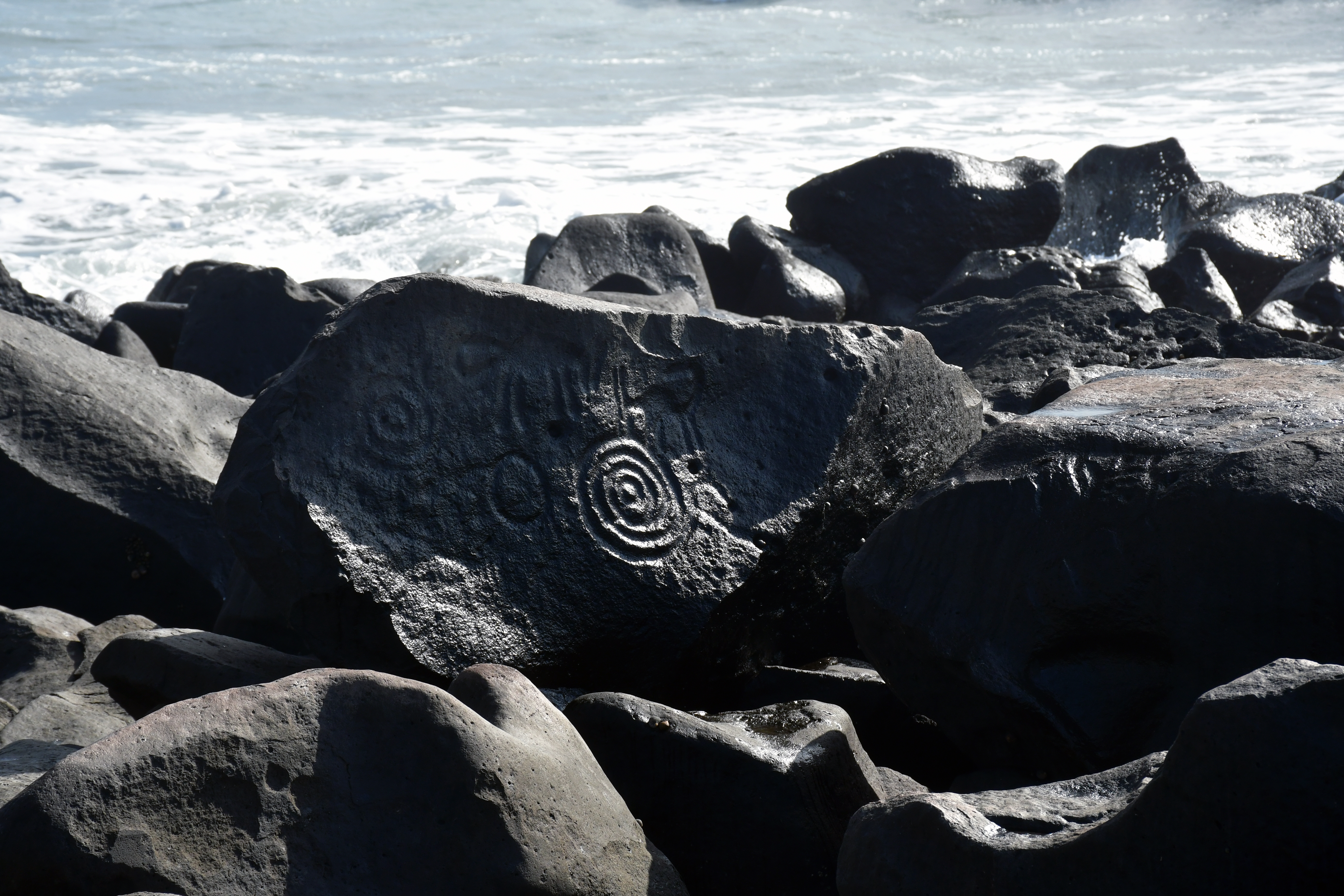 Petroglyphs of the archaeological site of Las Labradas, situated on the coast of the municipality of San Ignacio (Mexican state of Sinaloa).